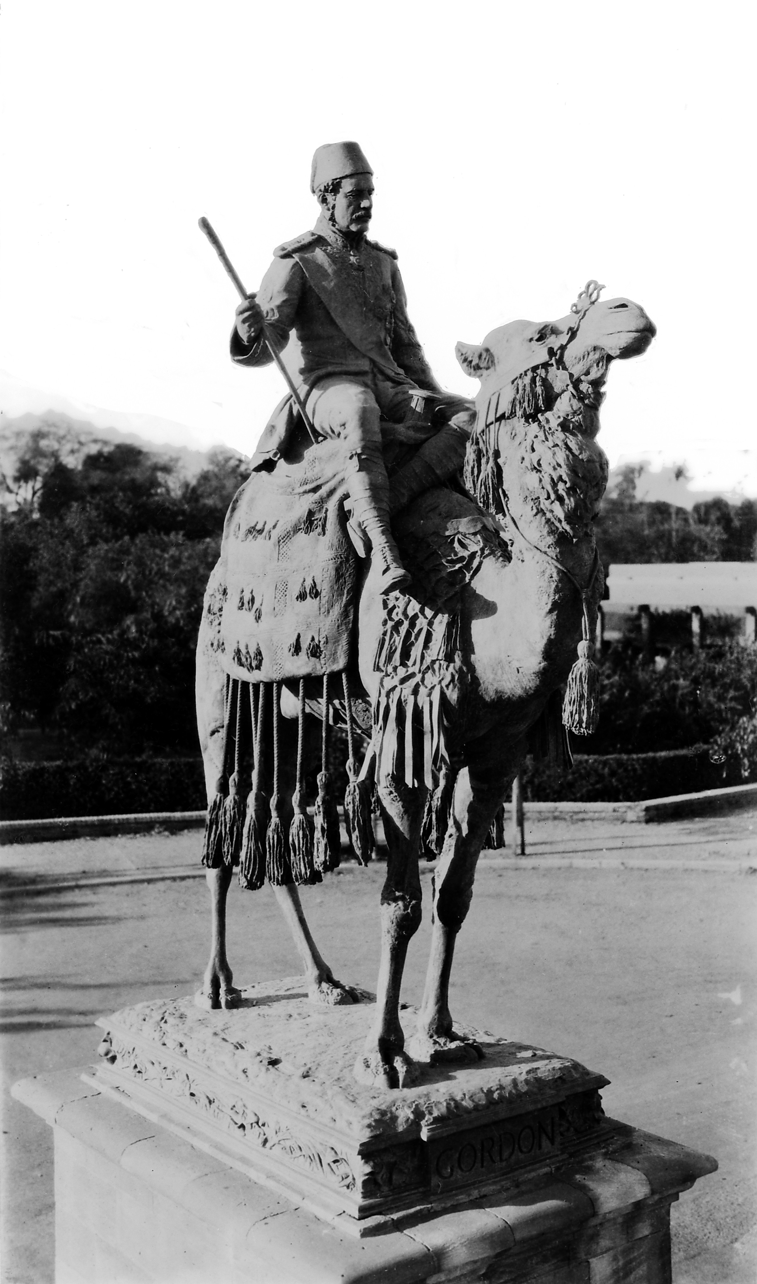 Statue of General Gordon, seated on a camel, at Khartoum Iconographic Collections Keywords: Gordon